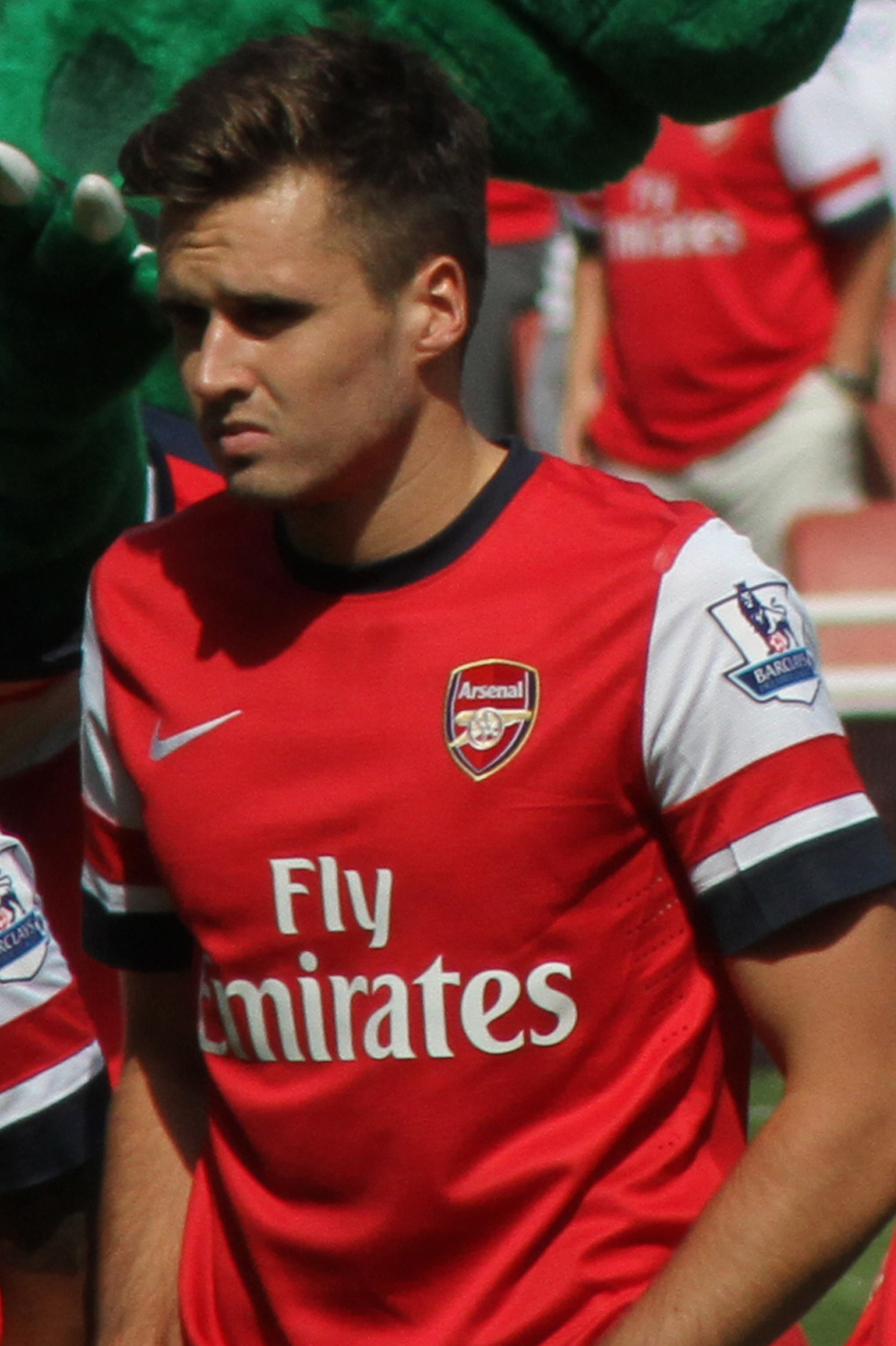 Gervinho, Theo Walcott, Carl Jenkinson, Per Mertesacker, Abou Diaby and Gunnersaurus Rex line up before the opening match of the 2012–13 Premier League season.